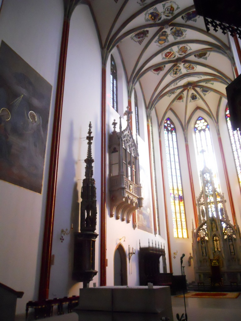 Hradec Králové, cathedral, interior